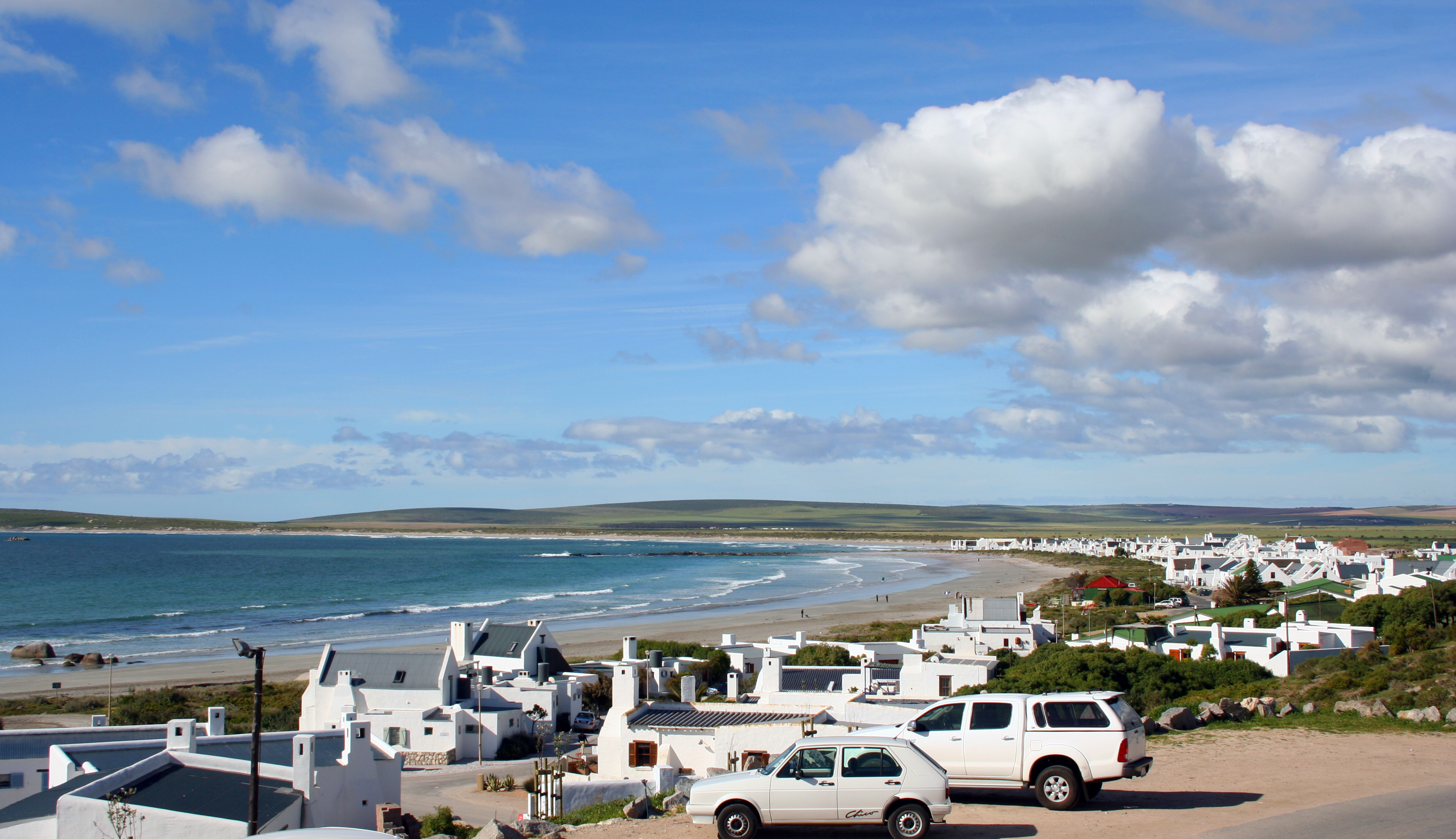 The fisherman's village of Paternoster in Western Cape, South Afrika